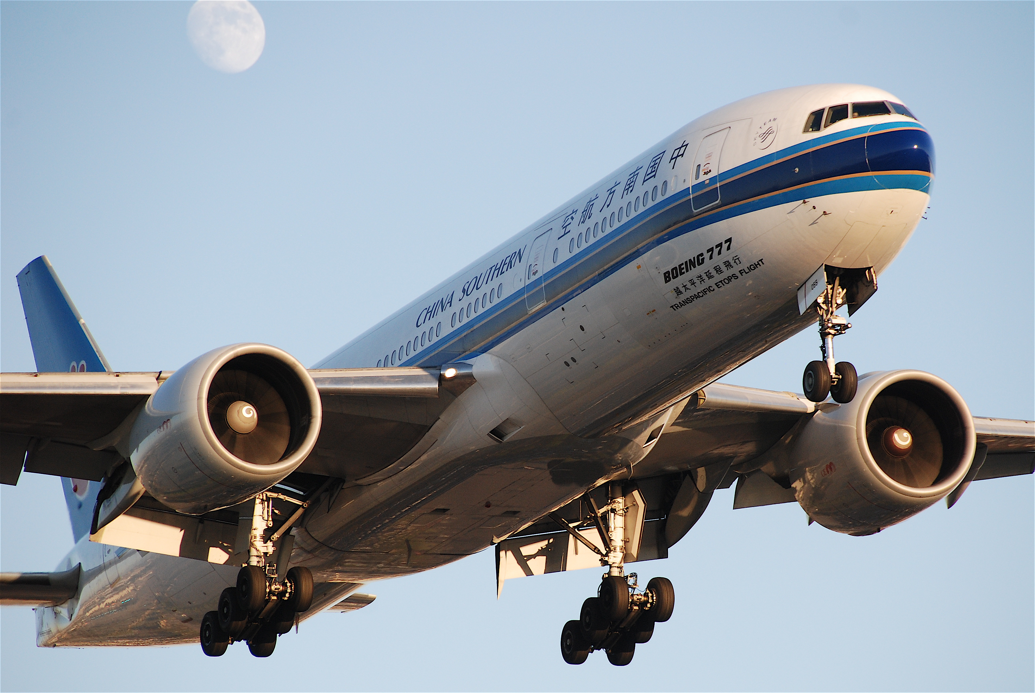 China Southern Airlines Boeing 777-21BER; B-2055@LAX;08.10.2011/620gt